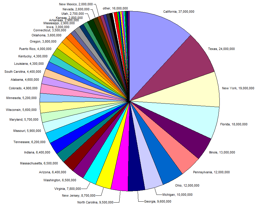 Pie chart of the population of the United States, including territories. Further information: List of U.S. states and territories by population.